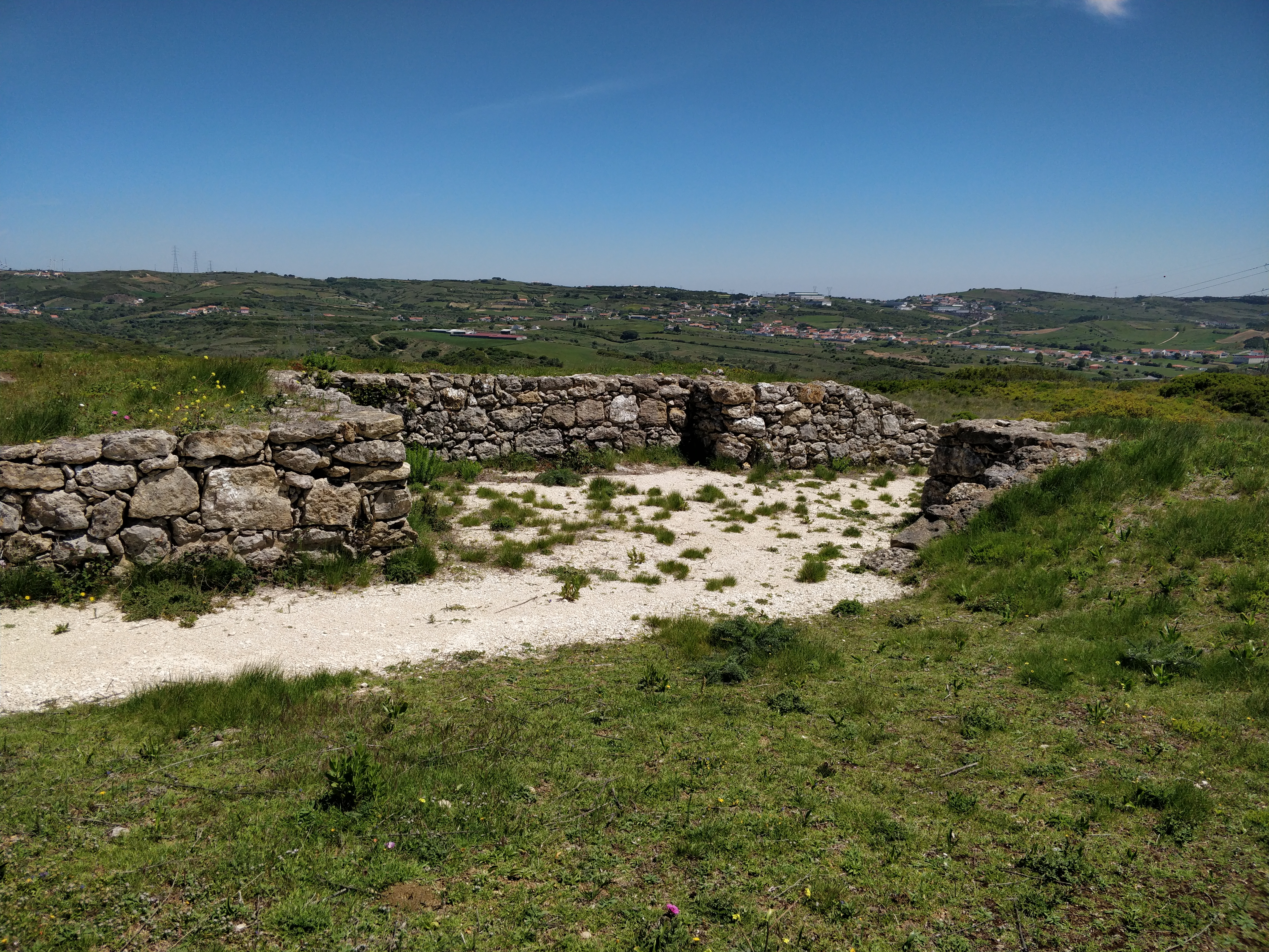 Fort of Ajuda Grande, one of the Lines of Torres Vedras forts, situated near Bucelas to the north of Lisbon, Portugal